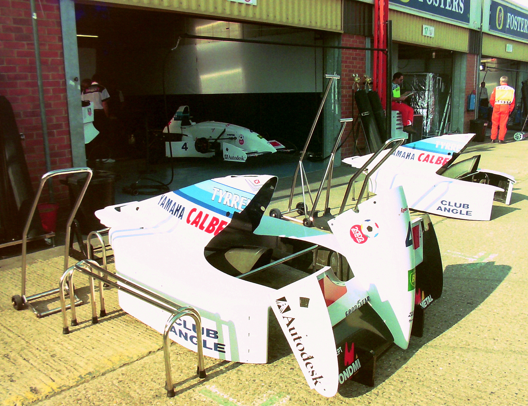 Tyrrell pits at the 1994 British Grand Prix